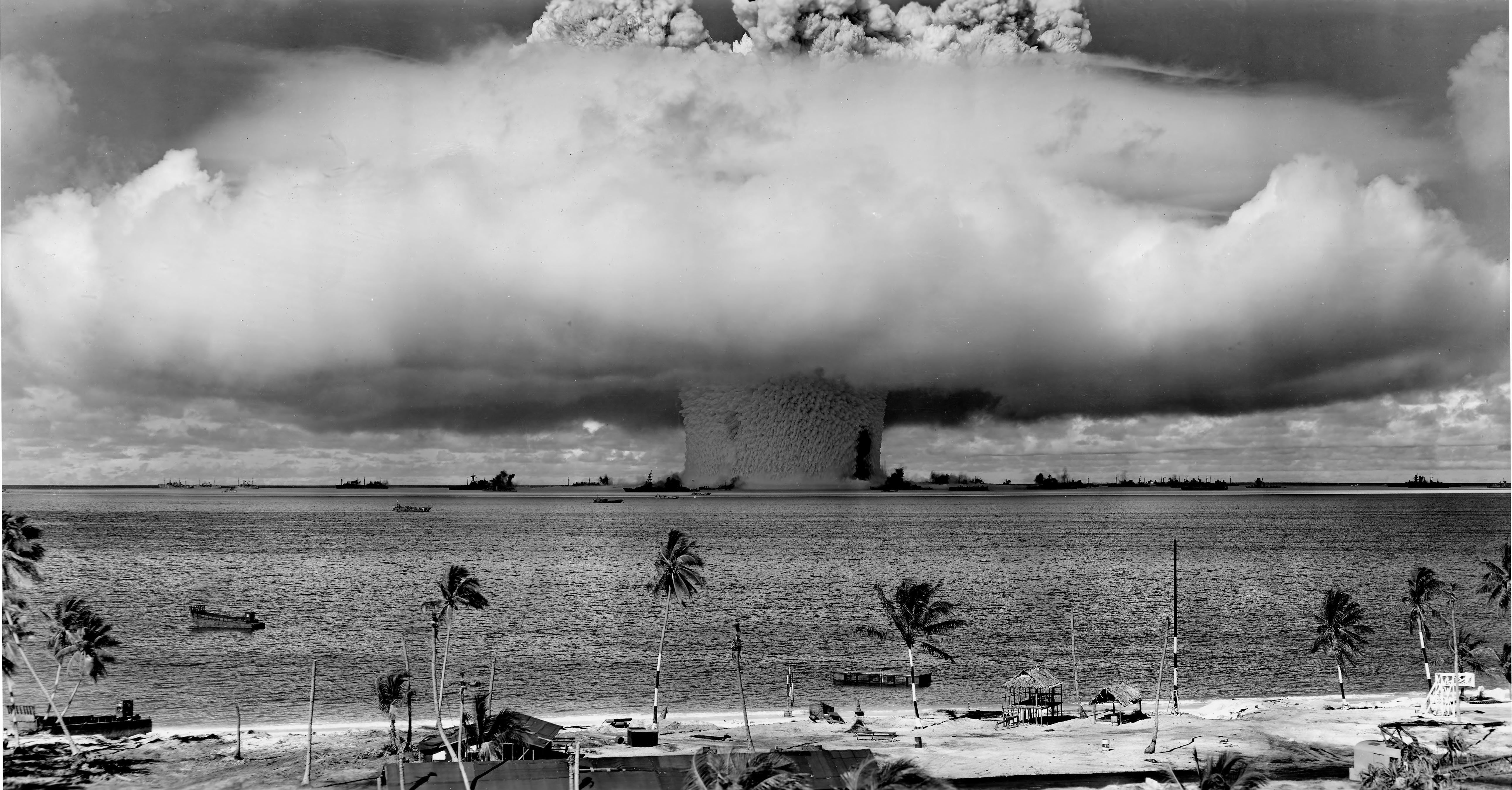 The "Baker" explosion, part of Operation Crossroads, a nuclear weapon test by the United States military at Bikini Atoll, Micronesia, on 25 July 1946. The wider, exterior cloud is actually just a condensation cloud caused by the Wilson chamber effect, and was very brief. The actual mushroom cloud is inside the condensation cloud (compare with this image, a photo taken slightly later, after the condensation cloud had cleared). The water released by the explosion was highly radioactive and contaminated many of the ships that were set up near it. Some were otherwise undamaged and sent to Hunter's Point in San Francisco, California, United States for decontamination. Those which could not be decontaminated were sunk a number of miles off the coast of San Francisco.